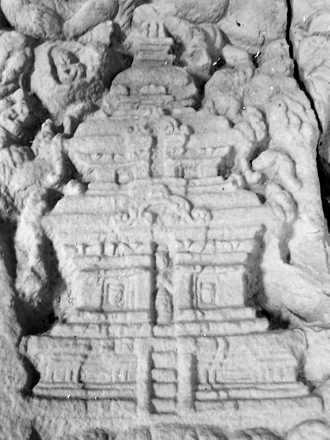 This photo is of a detail from a relief carving found at My Son, Vietnam. The carving is a medieval (presumably 10th century) Cham artist's depiction of a Cham temple tower.